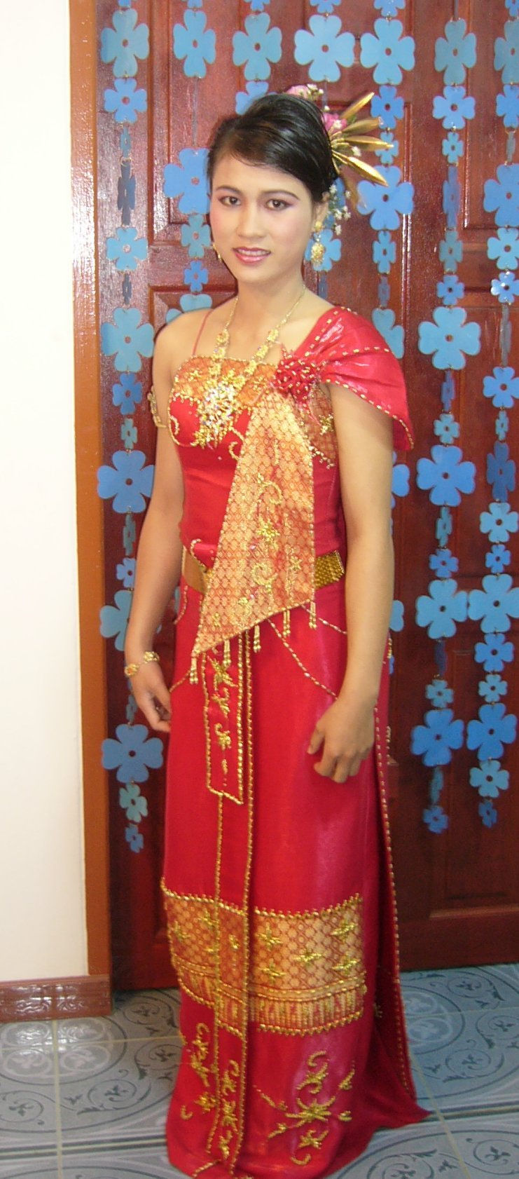 Traditional red female Thai dress in the Isan region, ready for a school parade. Seen in Nakhun Yai, Nakhon Phanom province.